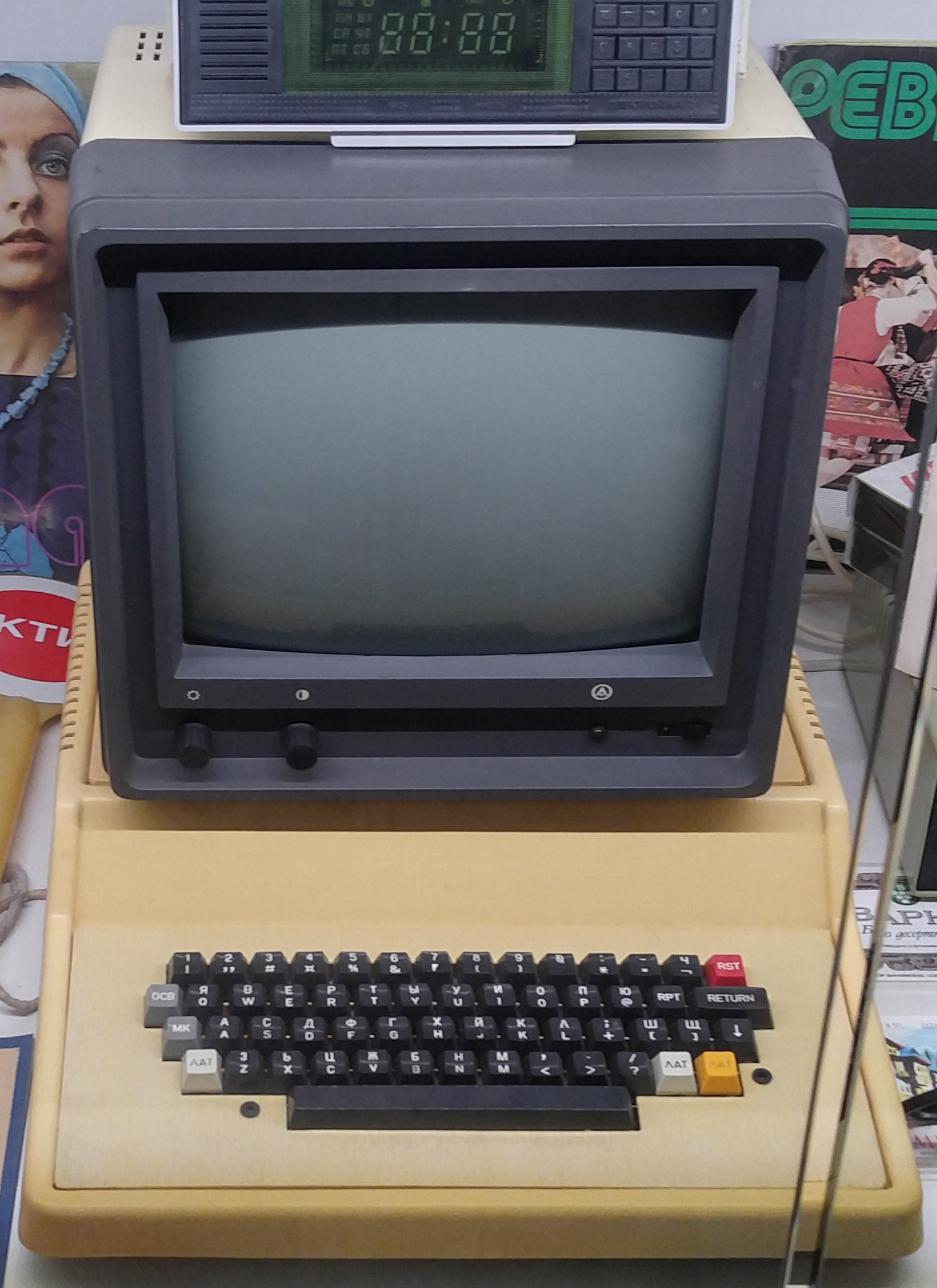 Pravetz 82 at Retro museum Varna